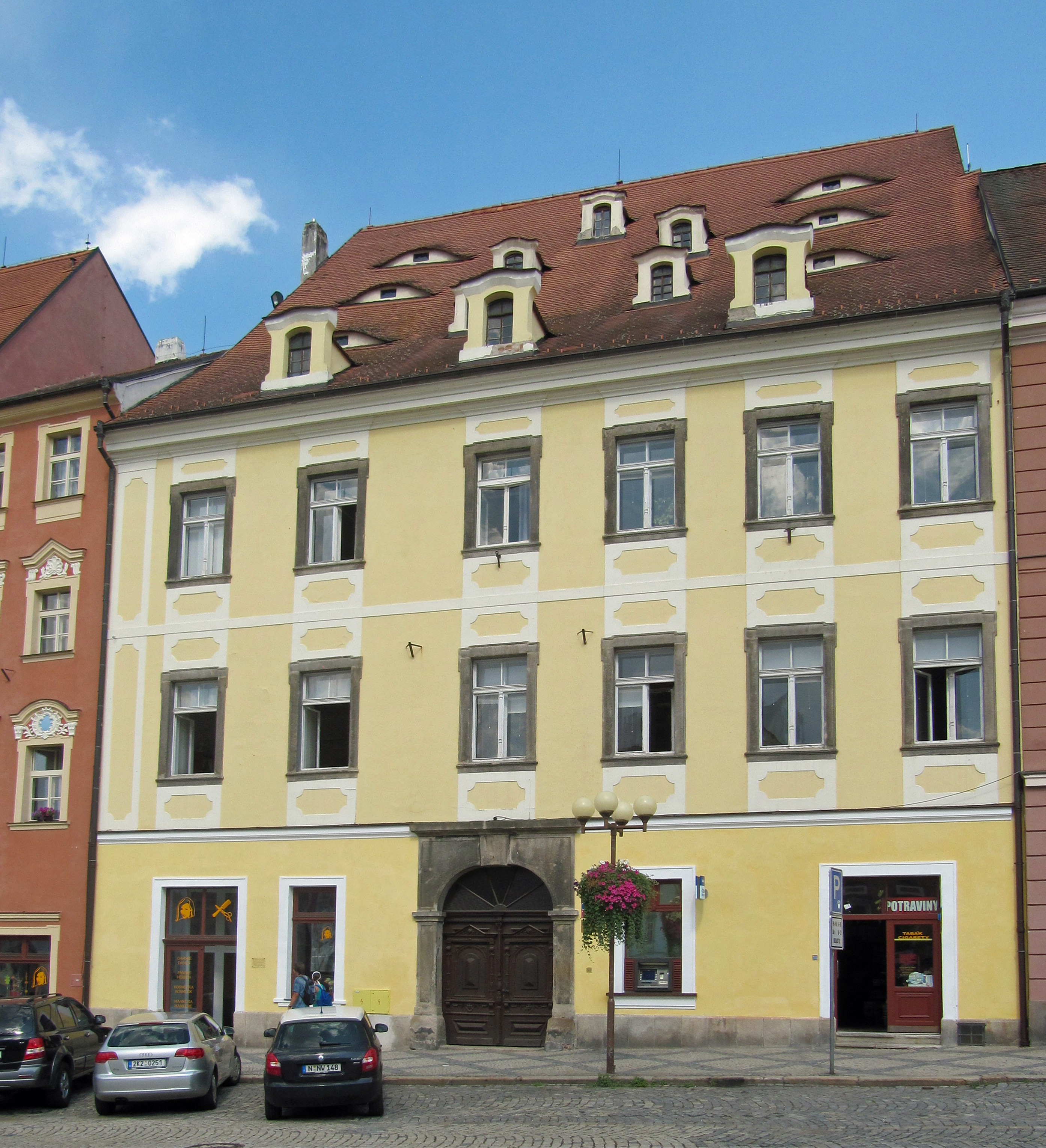 Cheb, Czech Republic.